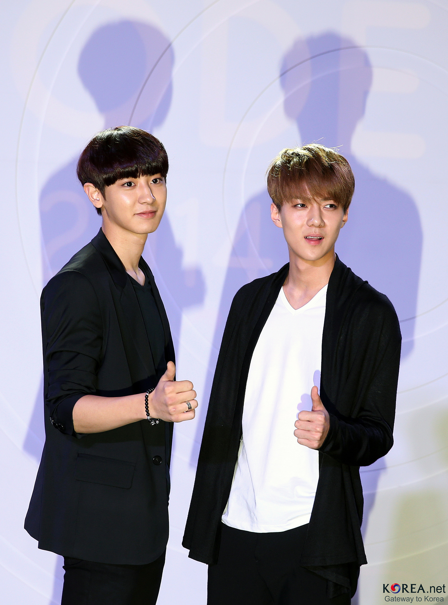 Fashion Kode 2014 July 16, 2014 aT Center, Seocho-gu, Seoul Ministry of Culture, Sports and Tourism Korean Culture and Information Service ( Official Photographer: Jeon Han This official Republic of Korea photograph is licensed as free content, so while restrictions such as personality or privacy rights may apply, in general, manipulations are allowed. If you want a photograph without a watermark, you may ask via Flickr e-mail. 패션코드 2014 2014-07-16 aT 센터 문화체육관광부 해외문화홍보원 코리아넷 전한